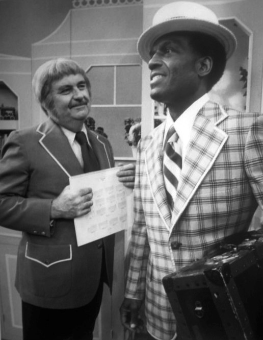 Publicity photo of Bob Keeshan and comedian Nipsey Russell in the Treasure House on the television program Captain Kangaroo.